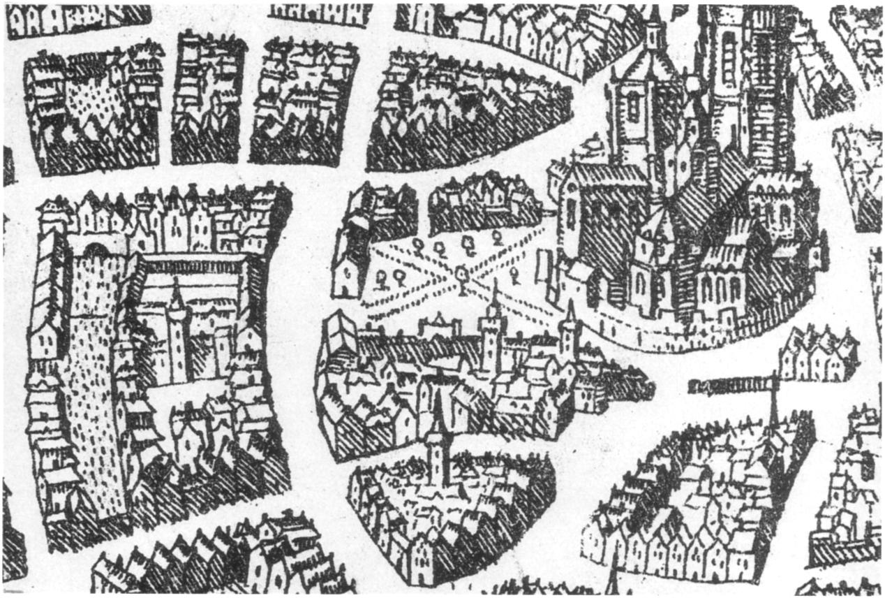 Detail of a map of Antwerp in 1557 by Hieronymus Cock with a view on Our Lady's Church and the churcyard